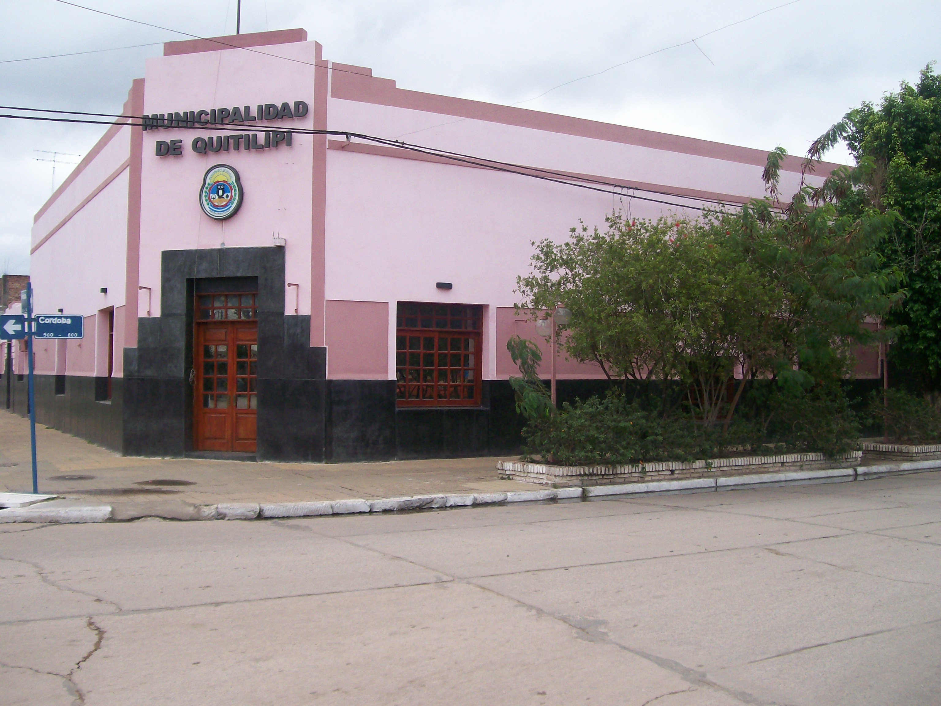 Municipalty of Quitilipi (Chaco Province, Argentina), in front of main square.